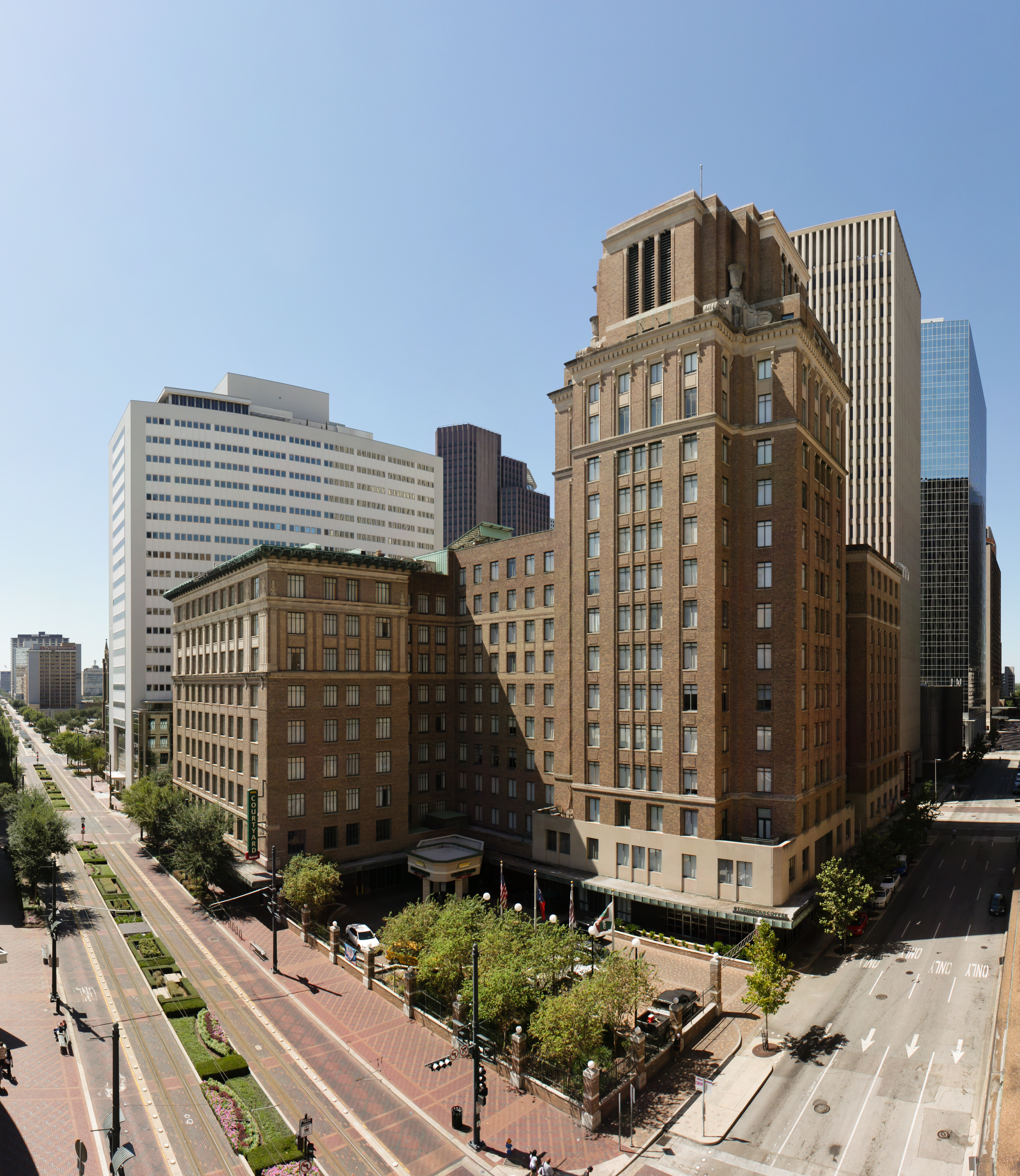 A twenty segment panorama of the Humble Oil Building at the corner of Main Street and Dallas Street in Houston, Texas.